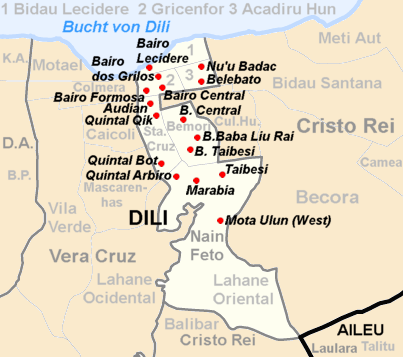 Administrative map of the Nain Feto subdistrict of East Timor